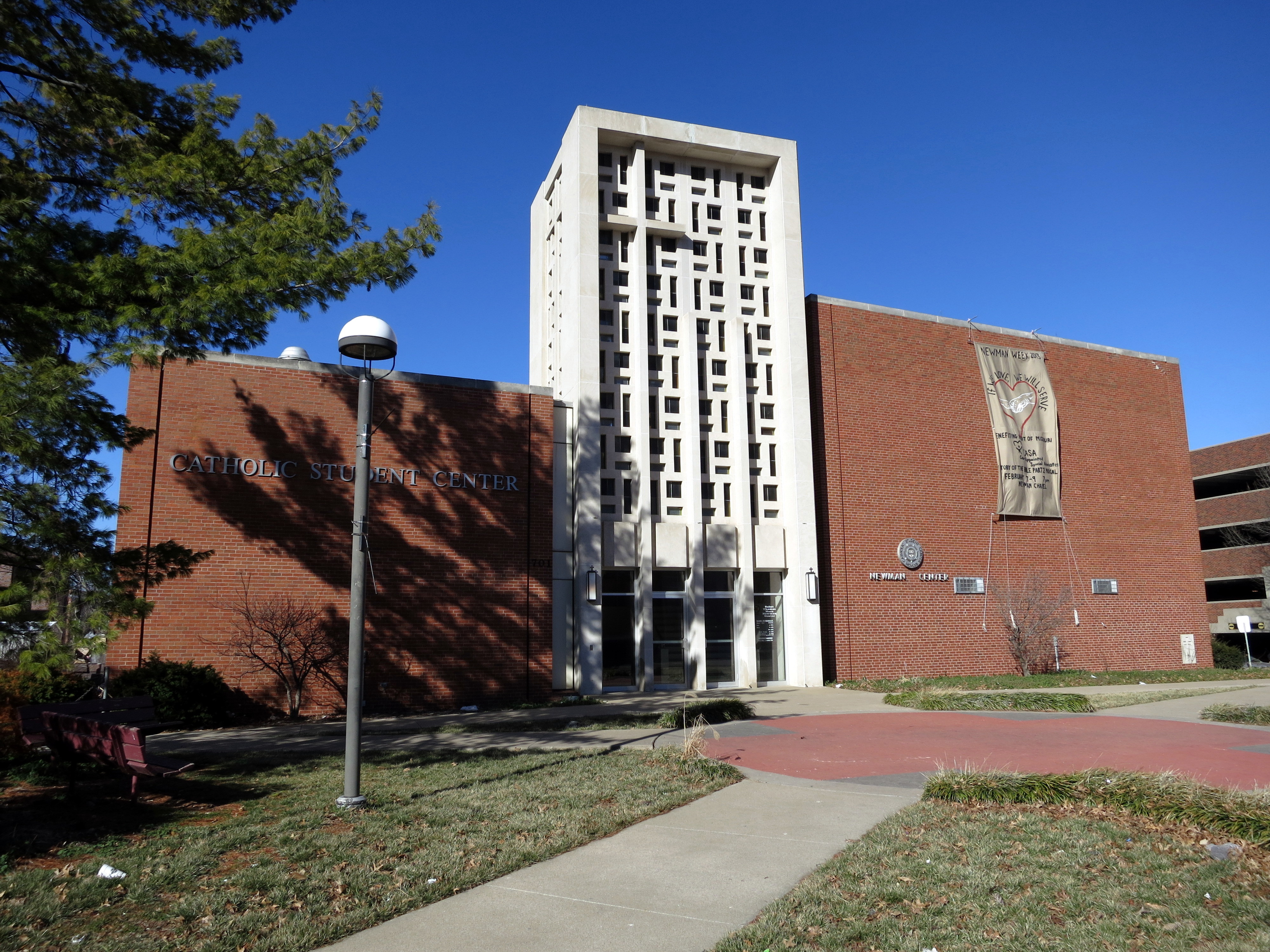 Saint Thomas More Newman Center (Columbia, MO) - exterior